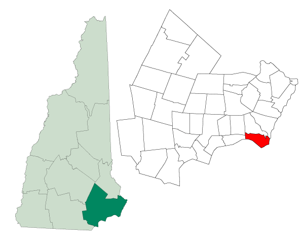 Map of a municipality in Rockingham County, New Hampshire